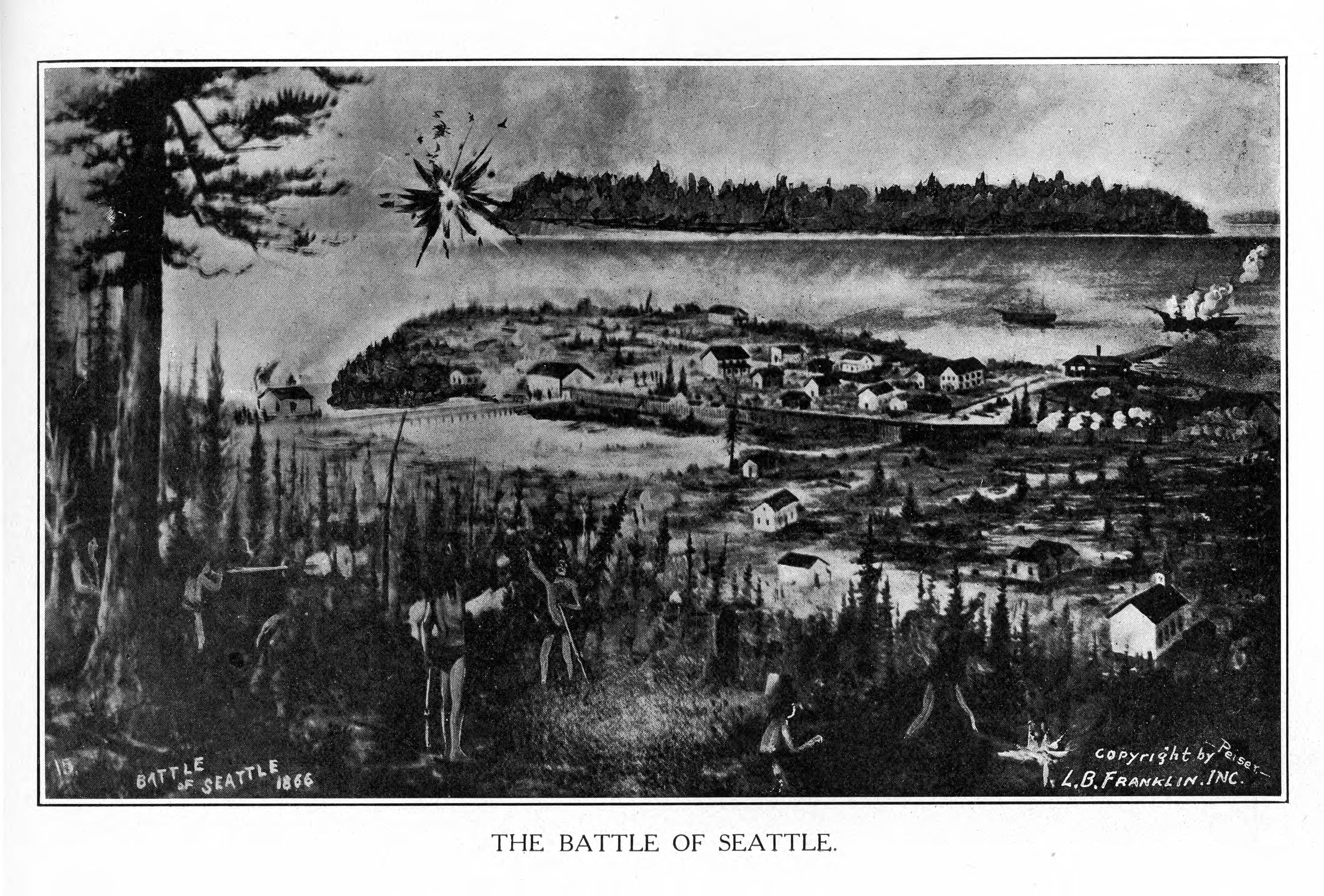 From the materials for the Alaska-Yukon-Pacific Exposition of 1909, held in Seattle. A drawing of the Battle of Seattle. Despite the "1866" written on the drawing, this should be 1856.